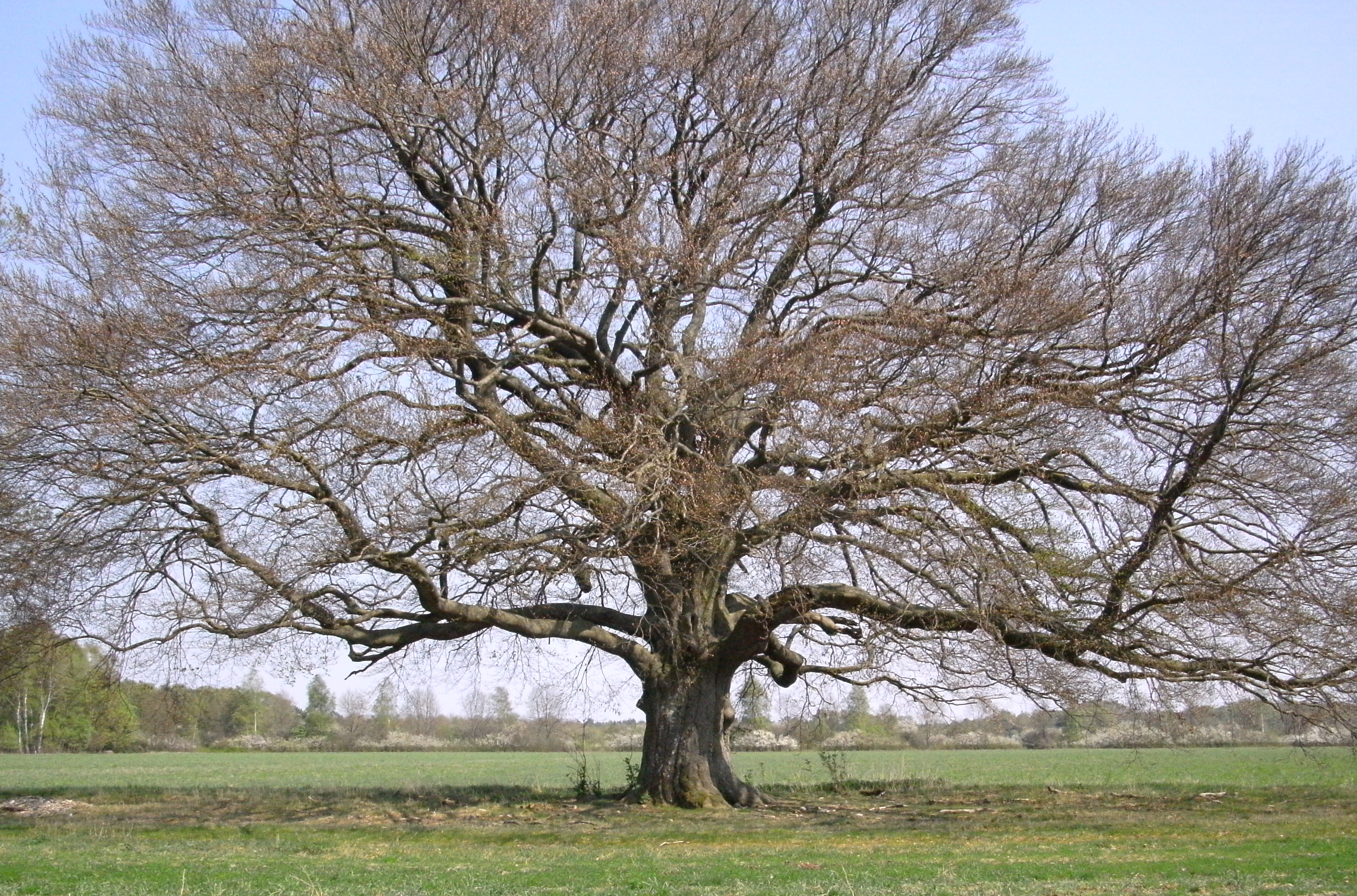 Tree in Bockheber, Schneverdingen